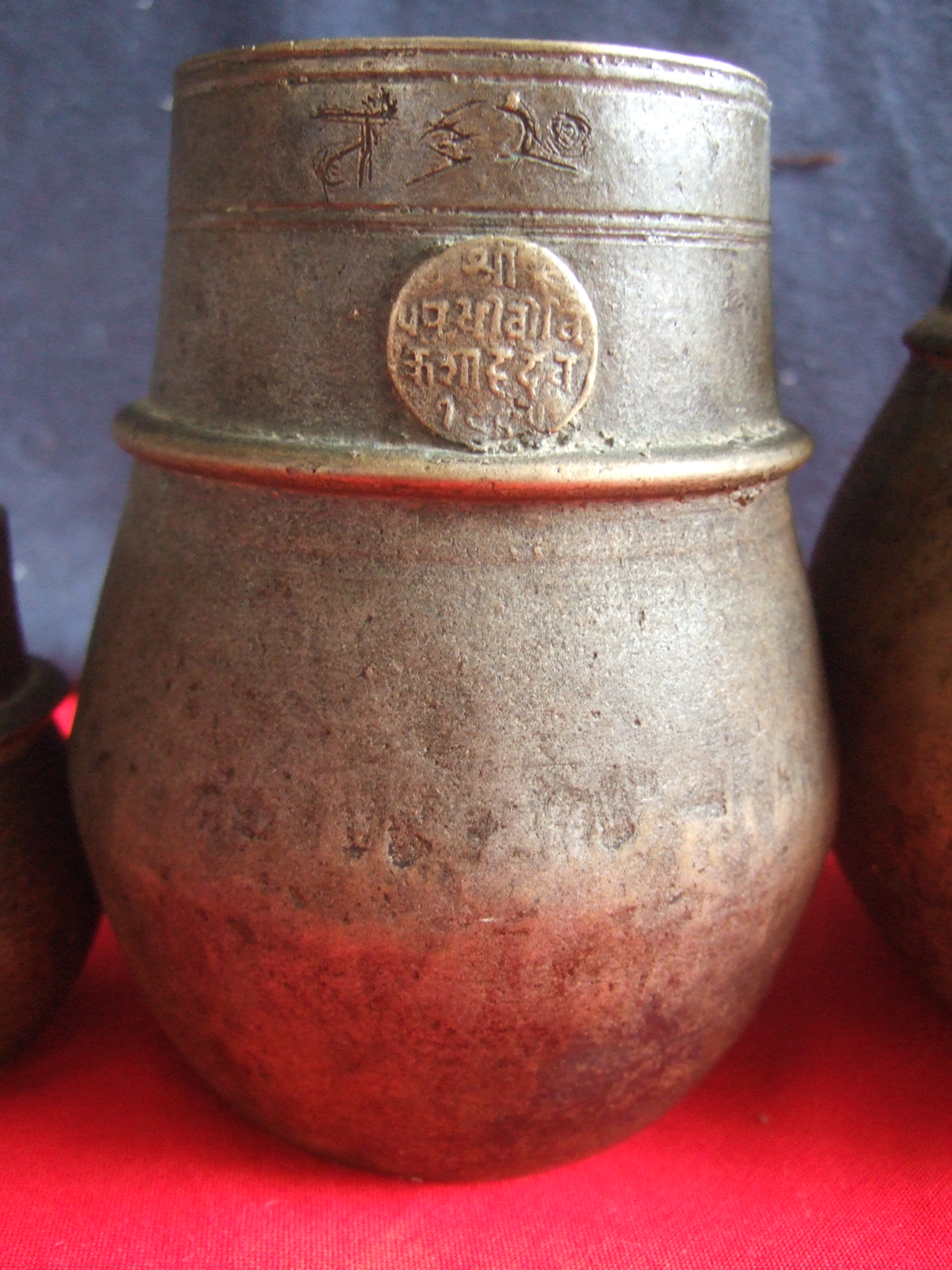 Dry measure from Nepal